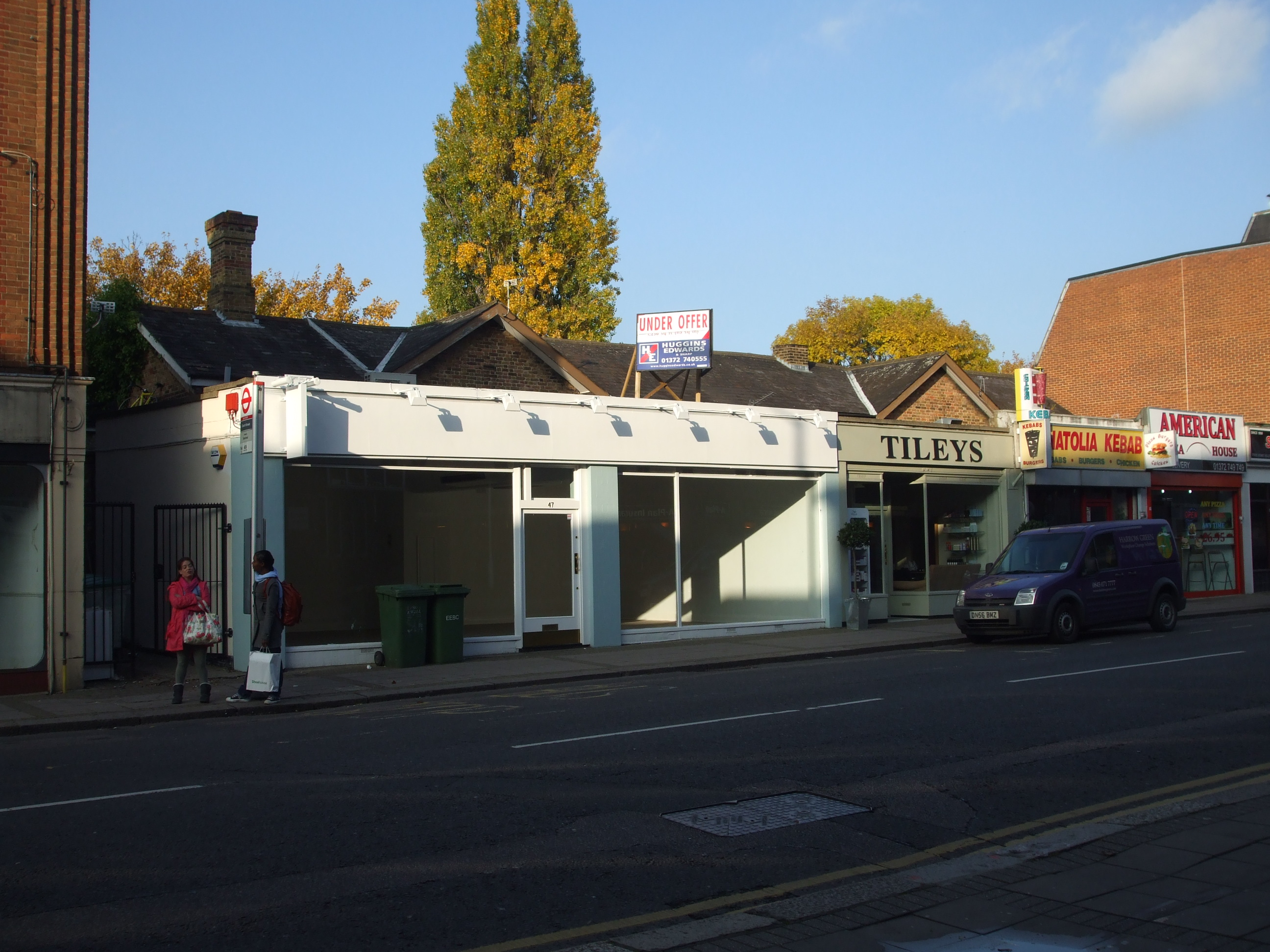 Epsom Town station building, just visible behind modern shop frontage, in November 2010. The station closed in 1929, upon the expansion to four platforms of the nearby Epsom station.